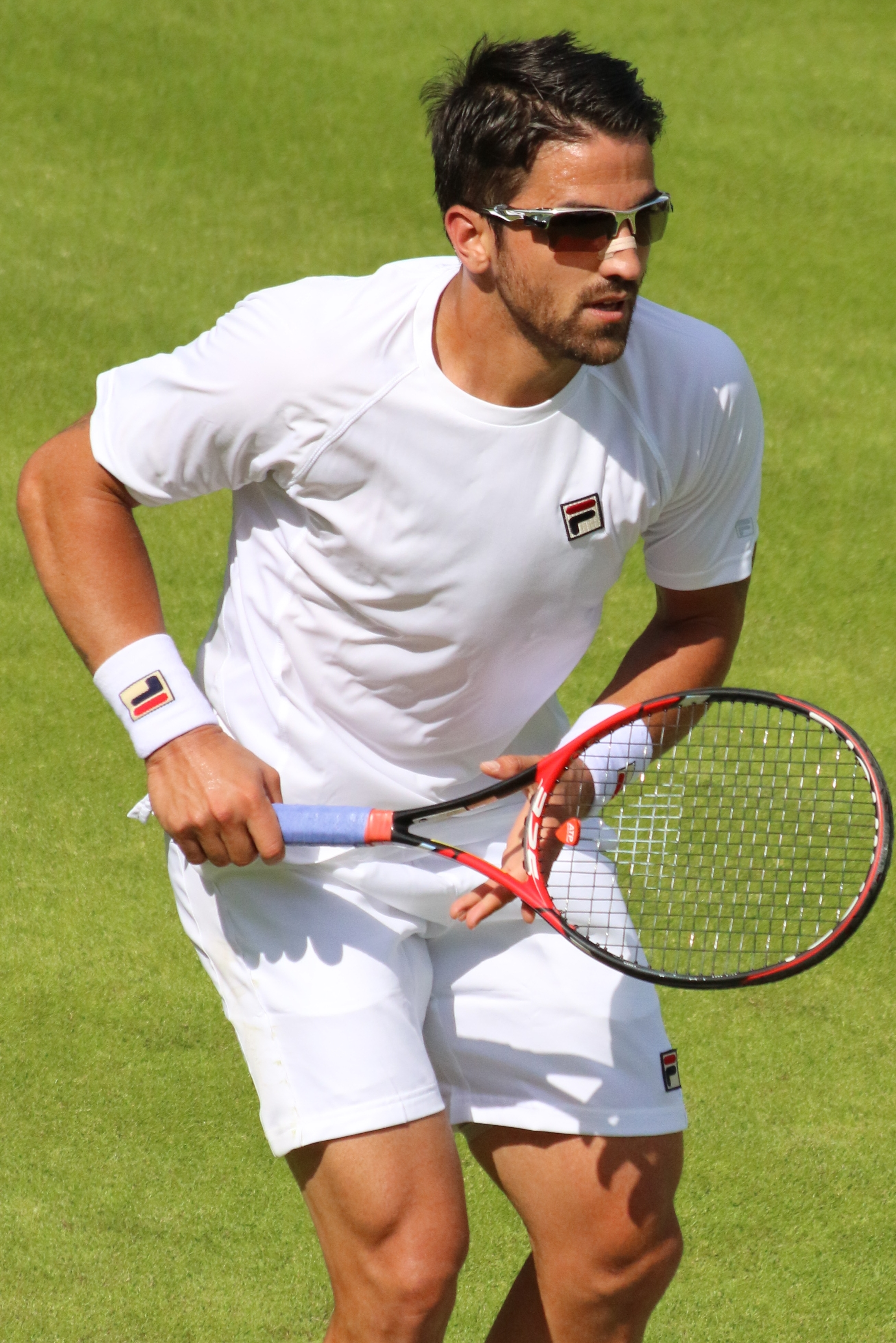 Tipsarevic WM16 (22)